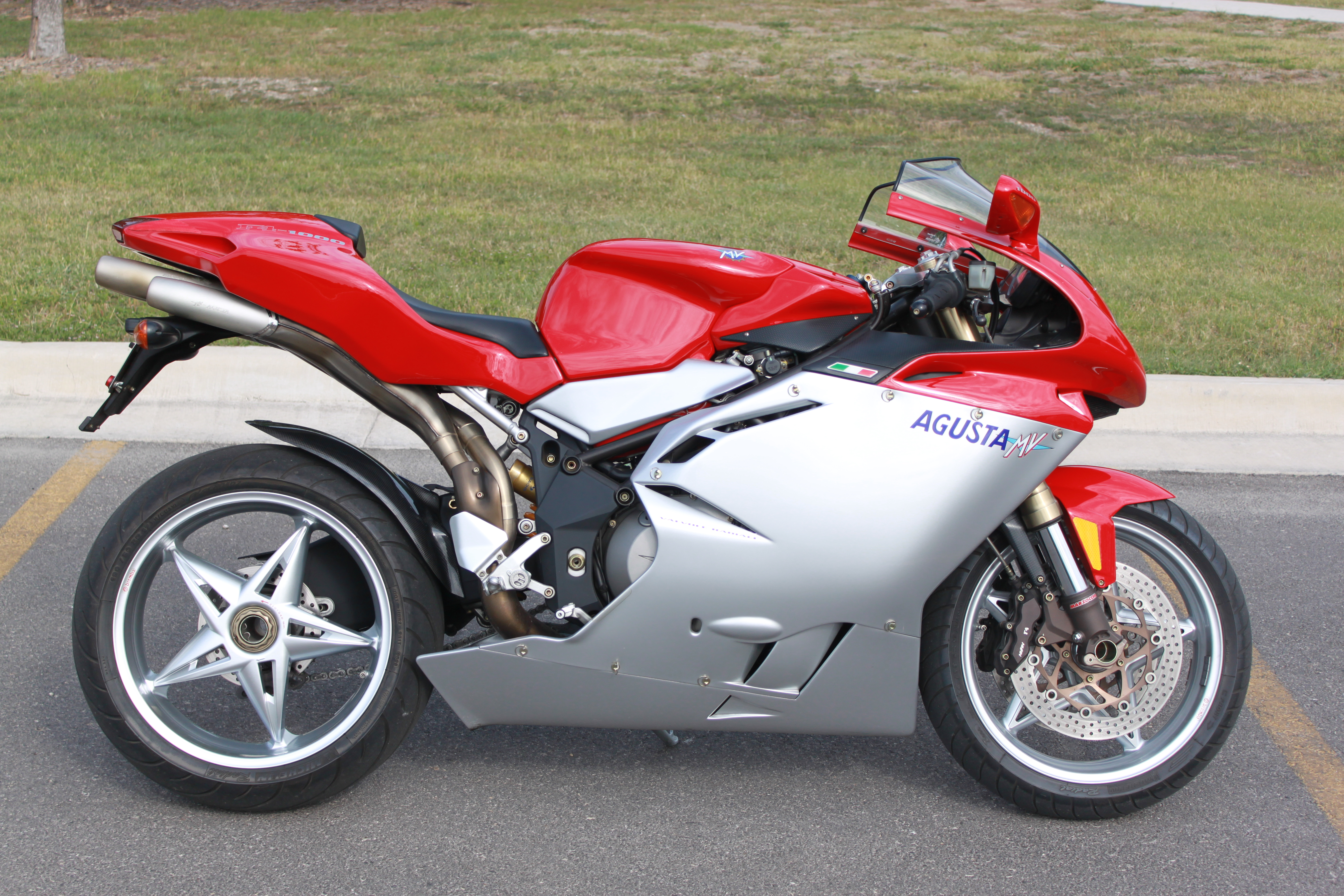 2006 MV Agusta F4 1000S